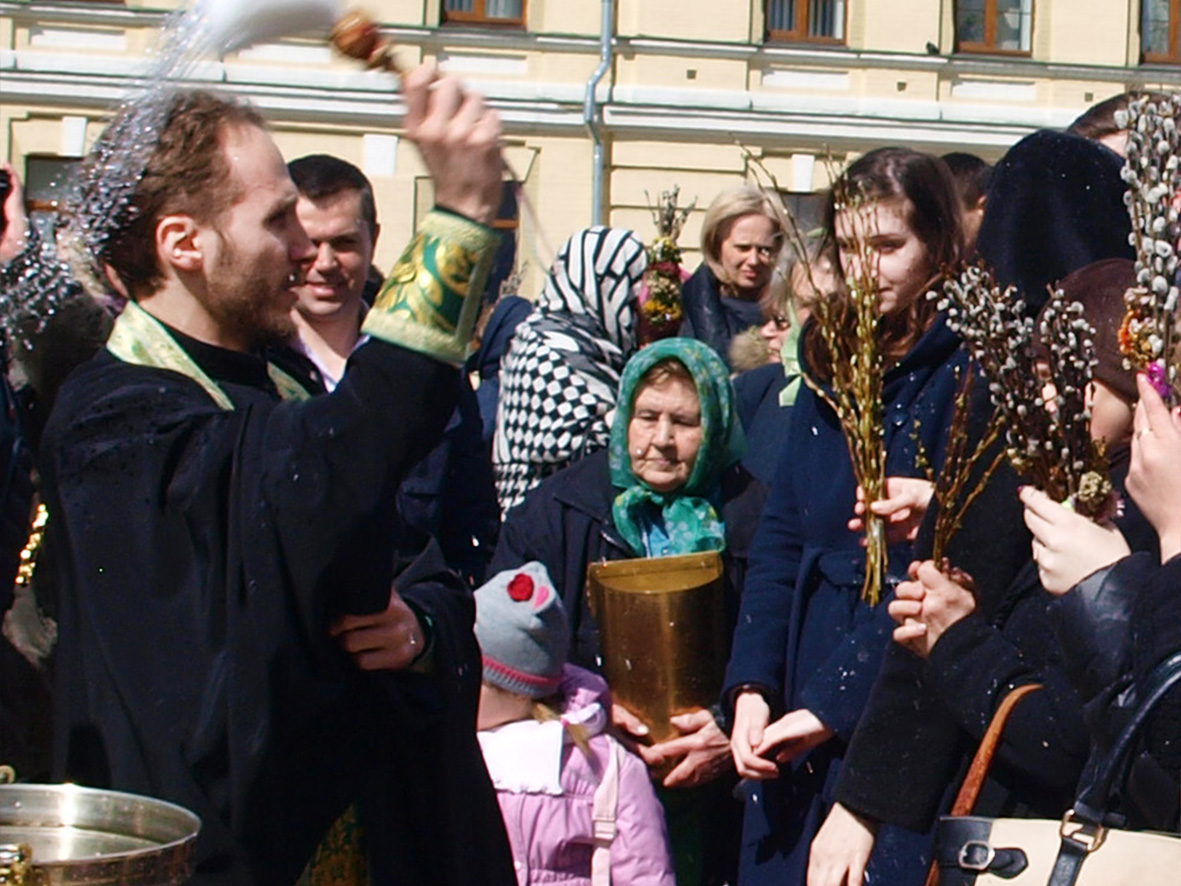 Palm Sunday in Kyiv (Ukraine)